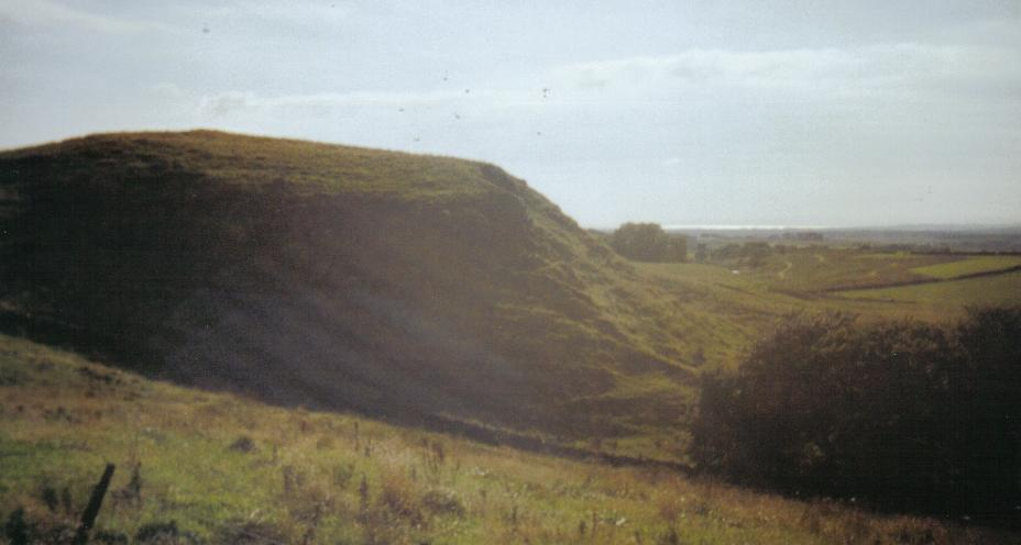 Craiglaw Hill in Ayrshire. This may have been a Moot Hill or Justice hill. The view is towards Halket, where Halket Loch used to be